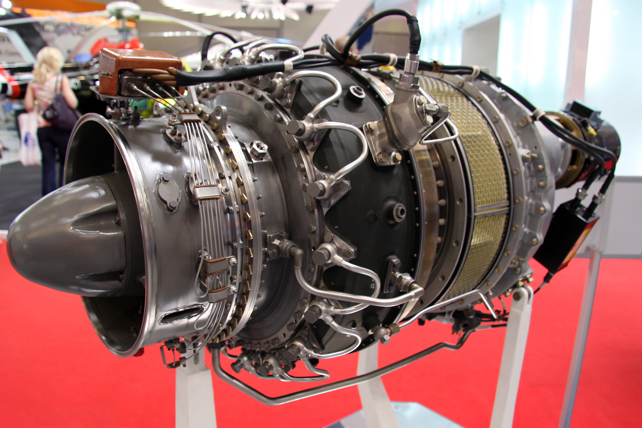 Turboshaft engine MS500V for Mi-54 in Third International Helicopter Industry Exhibition HeliRussia 2010